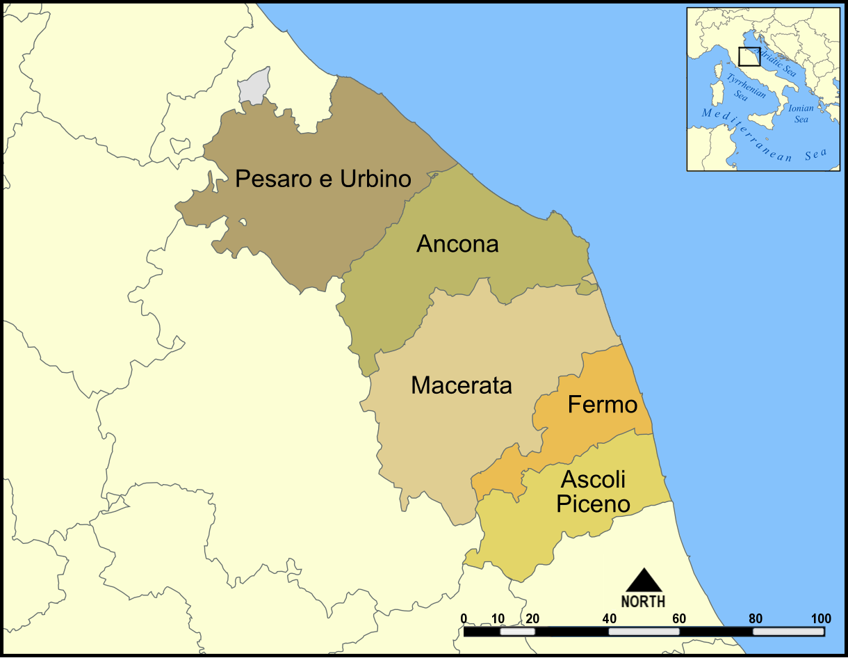 Administrative map of the Region Marche, Italy